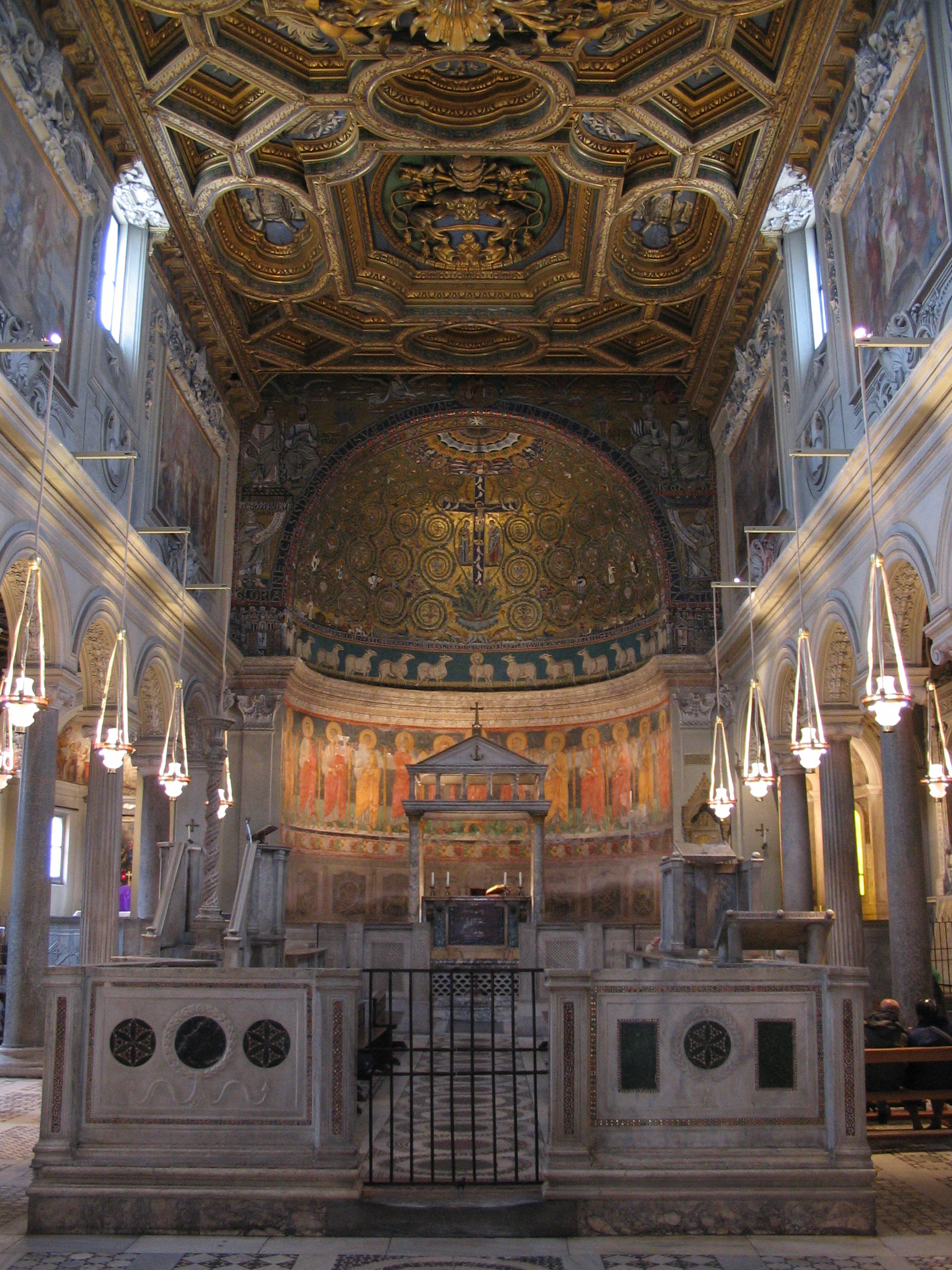 Interior of the Basilica di San Clemente, Rome, Italy.